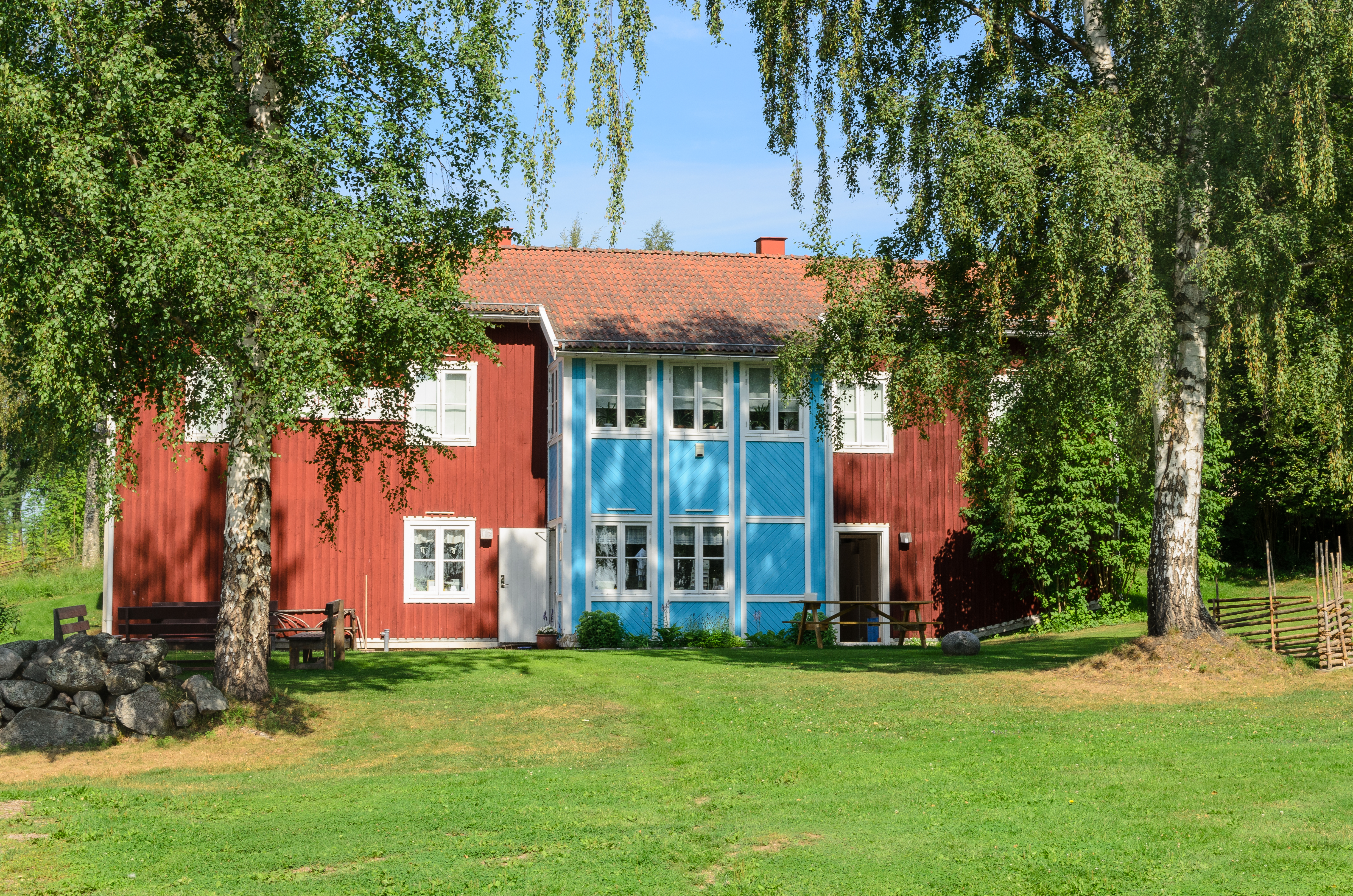 Modern museum building at Delsbo forngård, Hudiksvall Municipality.